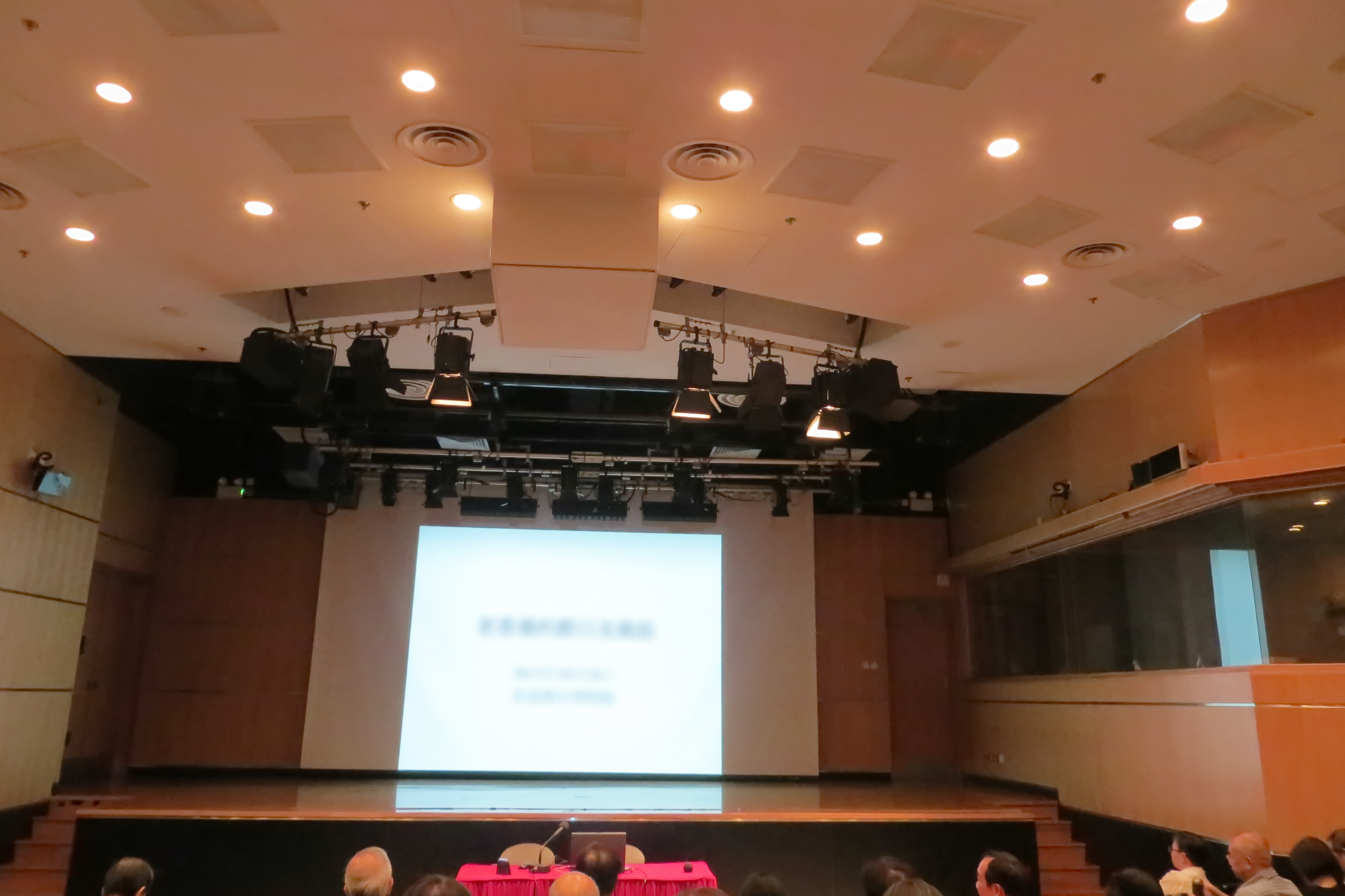 Lecture Hall of the Hong Kong Museum of History.